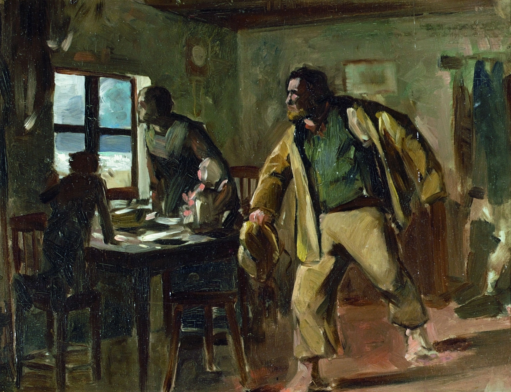 It was painted by Björck in Skagen, Denmark, where he became closely associated with the Skagen Painters.